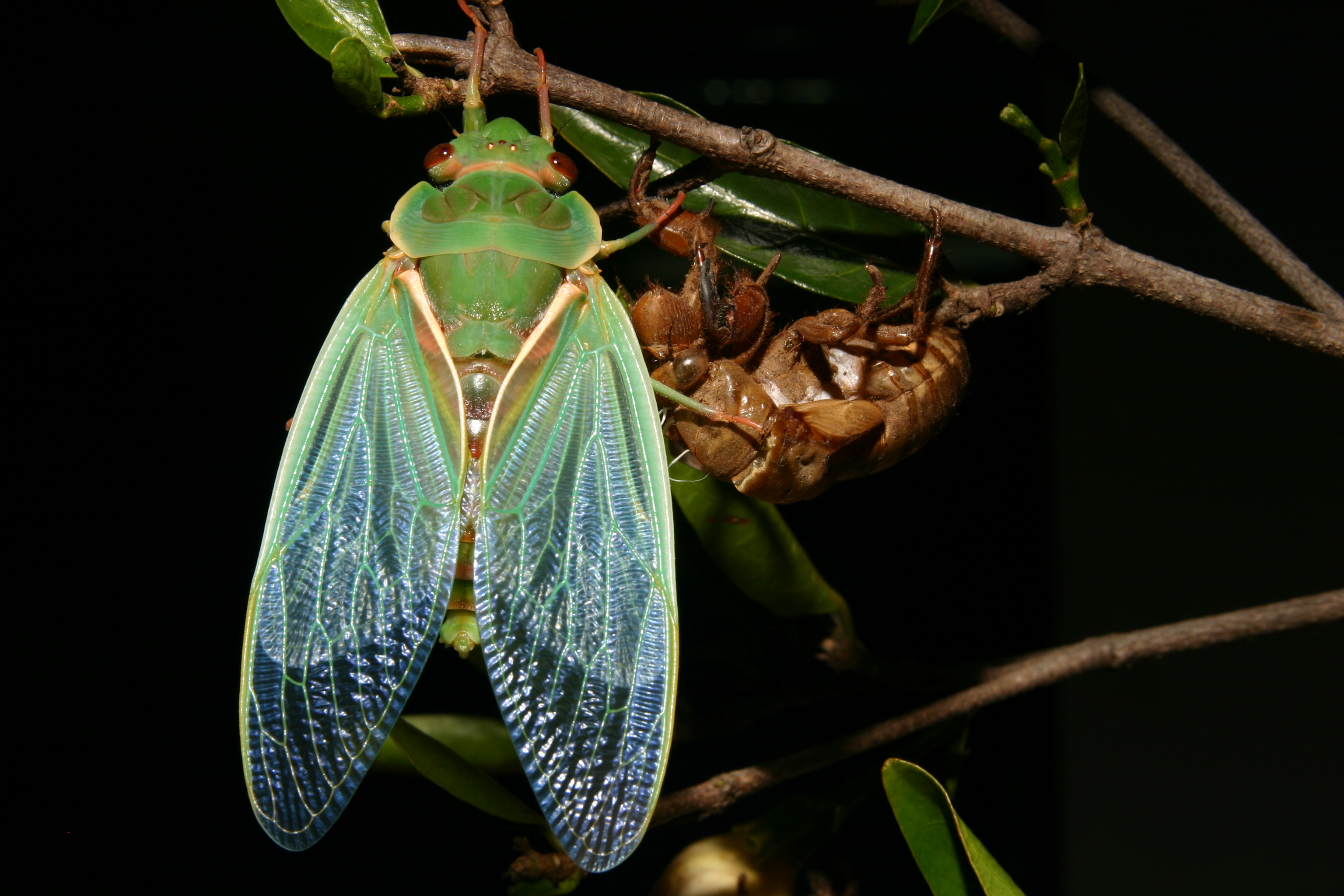 Cyclochila australasiae Australian Green grocer